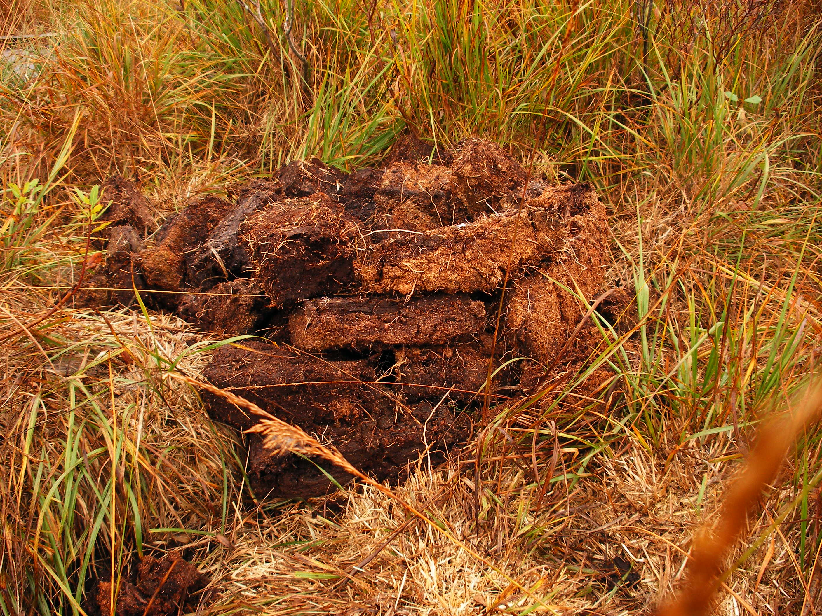 peat-ditch Wildes Moor mire, Schleswig-Holstein, Germany